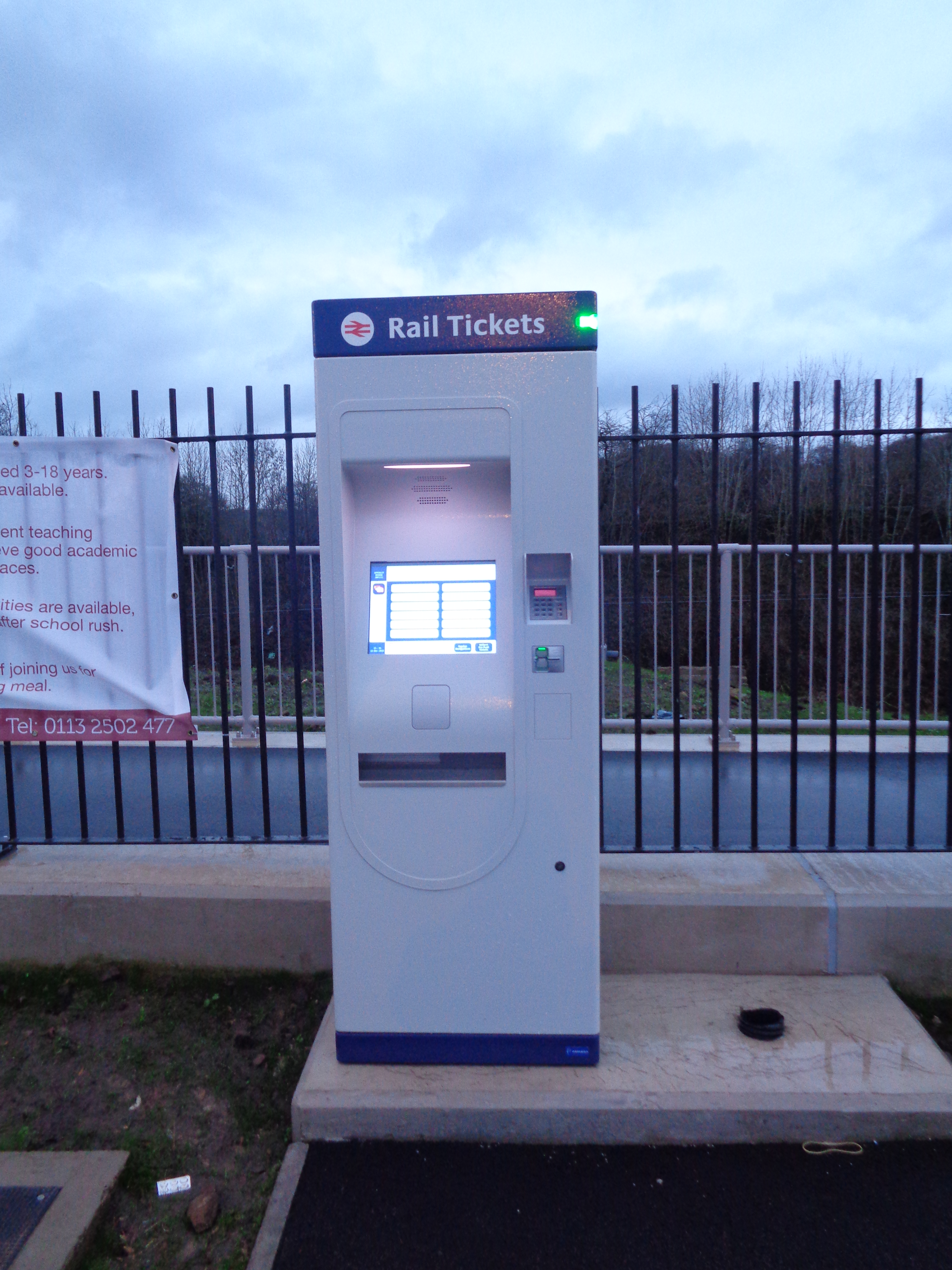 Ticket machine, Apperley Bridge railway station in Apperley Bridge, Bradford, West Yorkshire. The railway station opened on Sunday the 13th of December 2015. Taken on the afternoon of Tuesday the 22nd of December 2015 (nine days after opening).